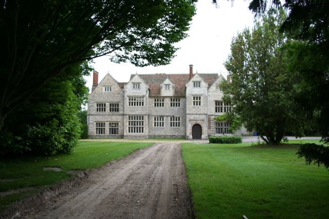 Sawston Hall This 16th century manor house is now locked up and closed to the public while planning problems are sorted out - though subtle access can be gained through a hole in the railings bordering St Mary's church graveyard.